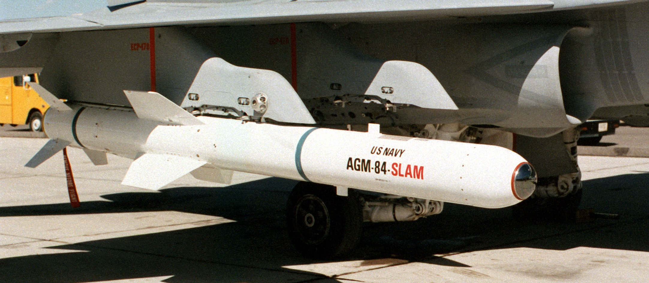 A view of an AGM-84 Harpoon air-to-surface anti-ship missile fixed under the wing of an F/A-18C Hornet aircraft parked on a flight line.